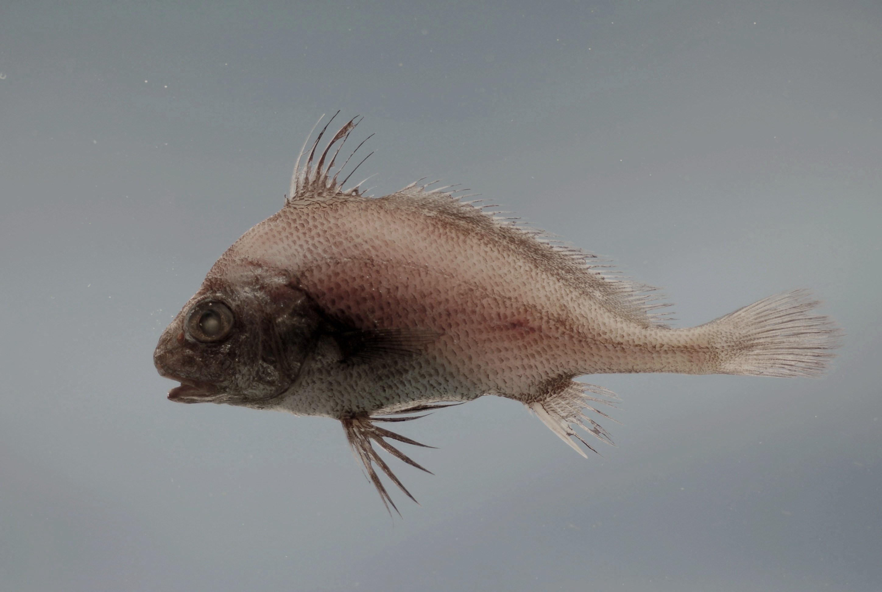 Blackbar drum ( Pareques iwamotoi )